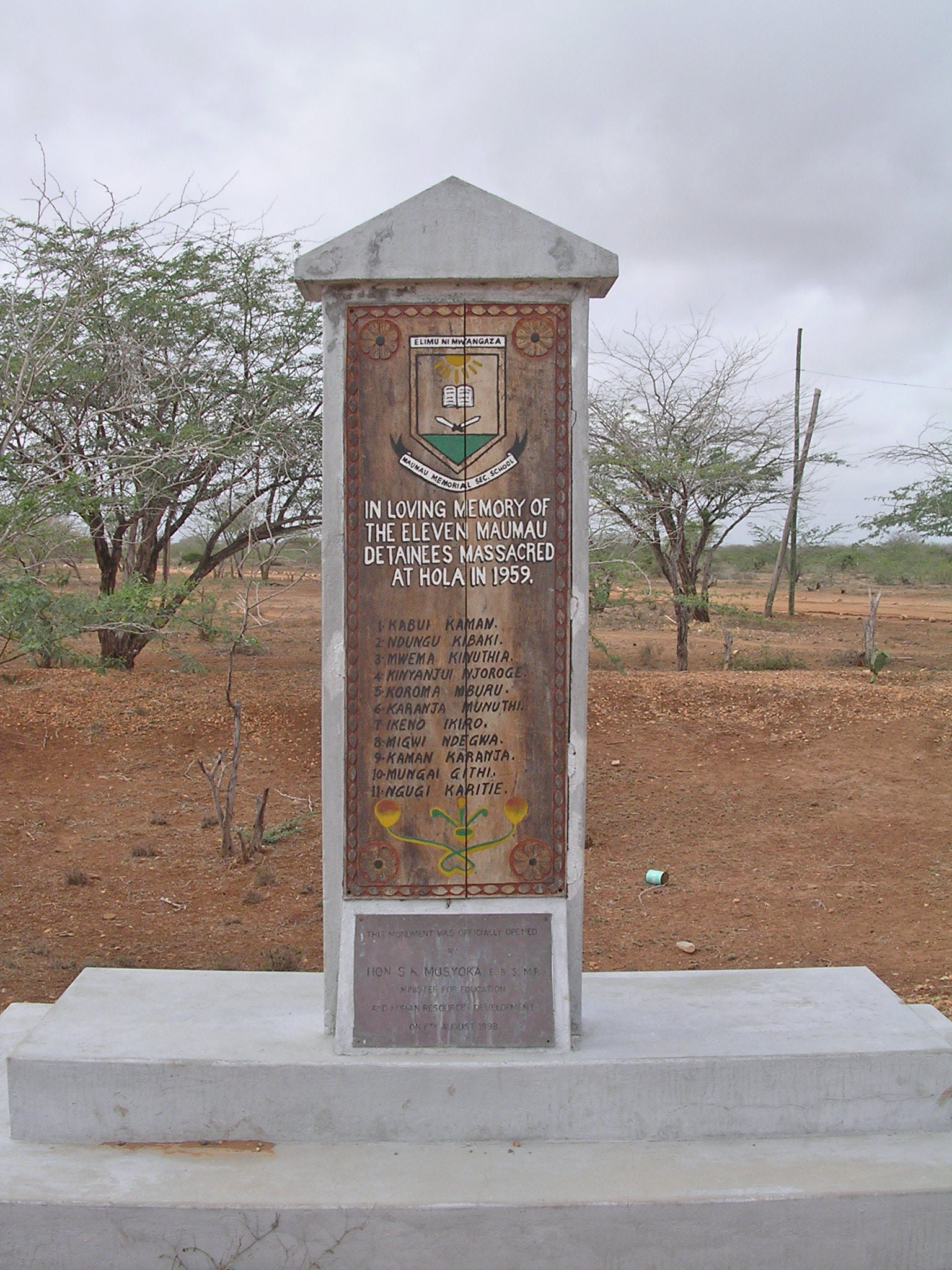 1n 1959 eleven Mau Mau freedom fighters were clubbed to death by guards at Hola detention camp. The incident became ínternationally known as the Hola Massacre'. This statue honours these eleven men. It was unveiled in 1998 by Hon. S.K. Msyoka, at that time Minister of Education